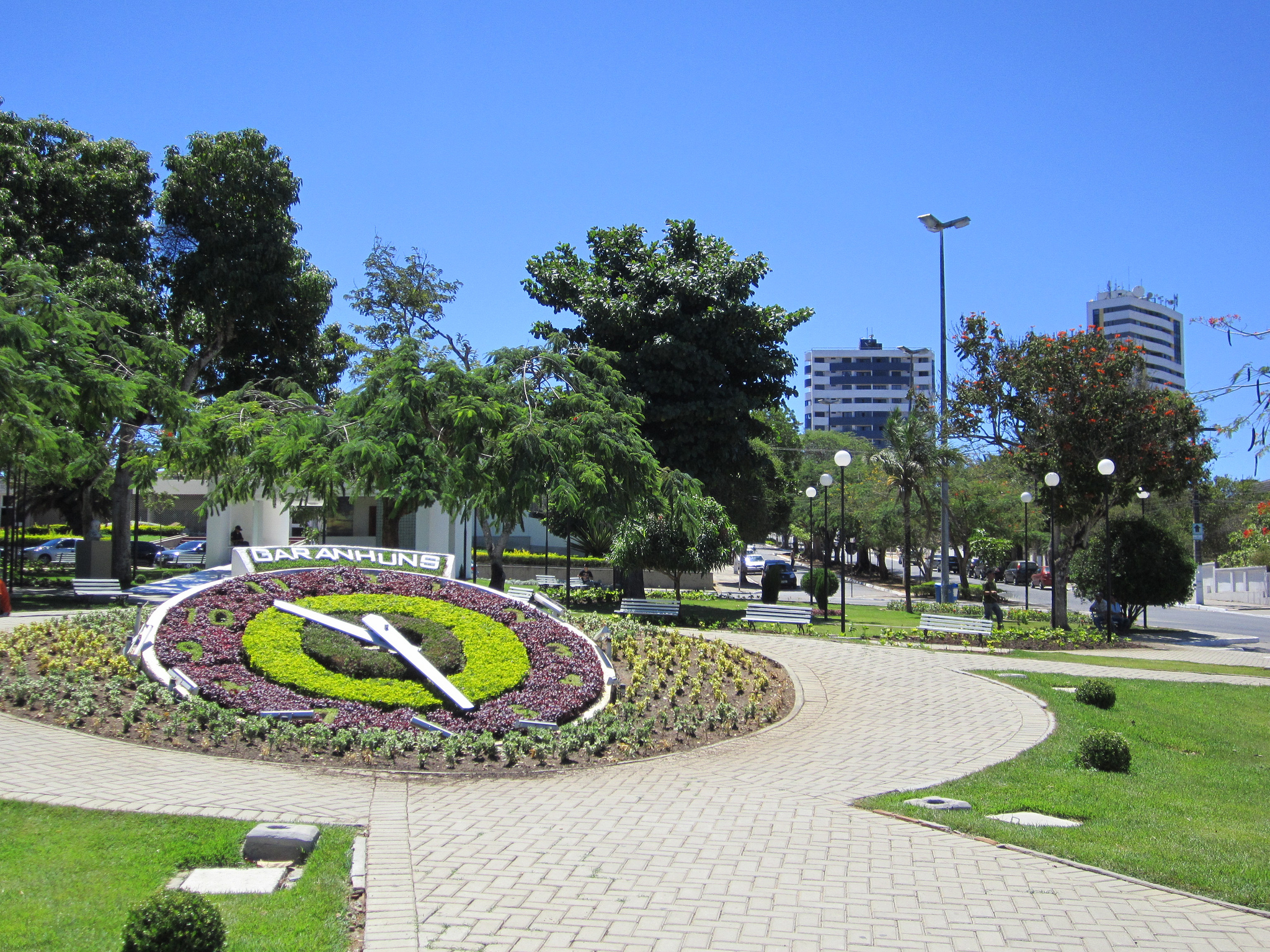 Floral clock - Garanhuns, Pernambuco, Brazil